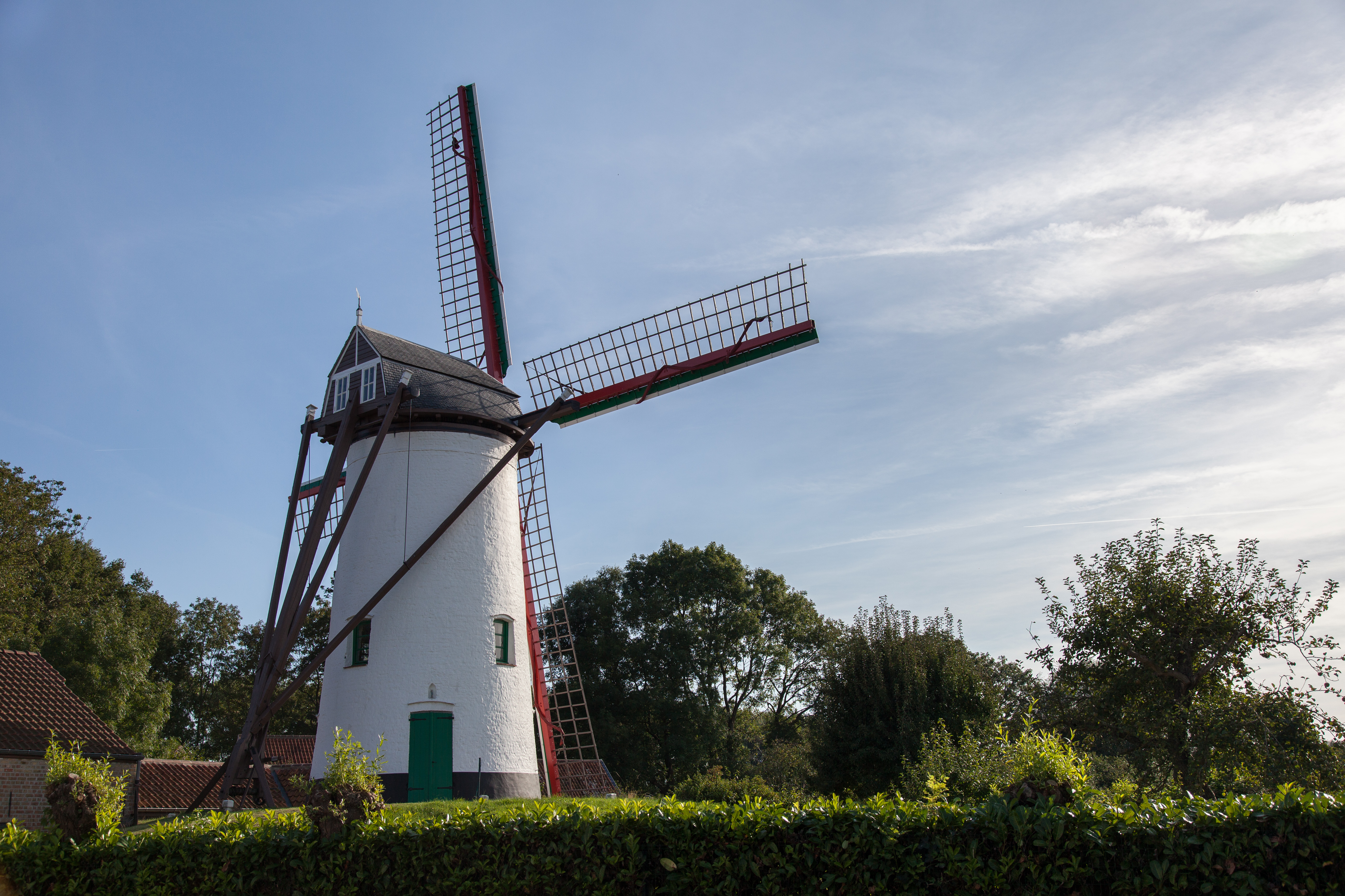 Bakstenen bergmolen, gebouwd op een hoge kunstmatige molenwal.